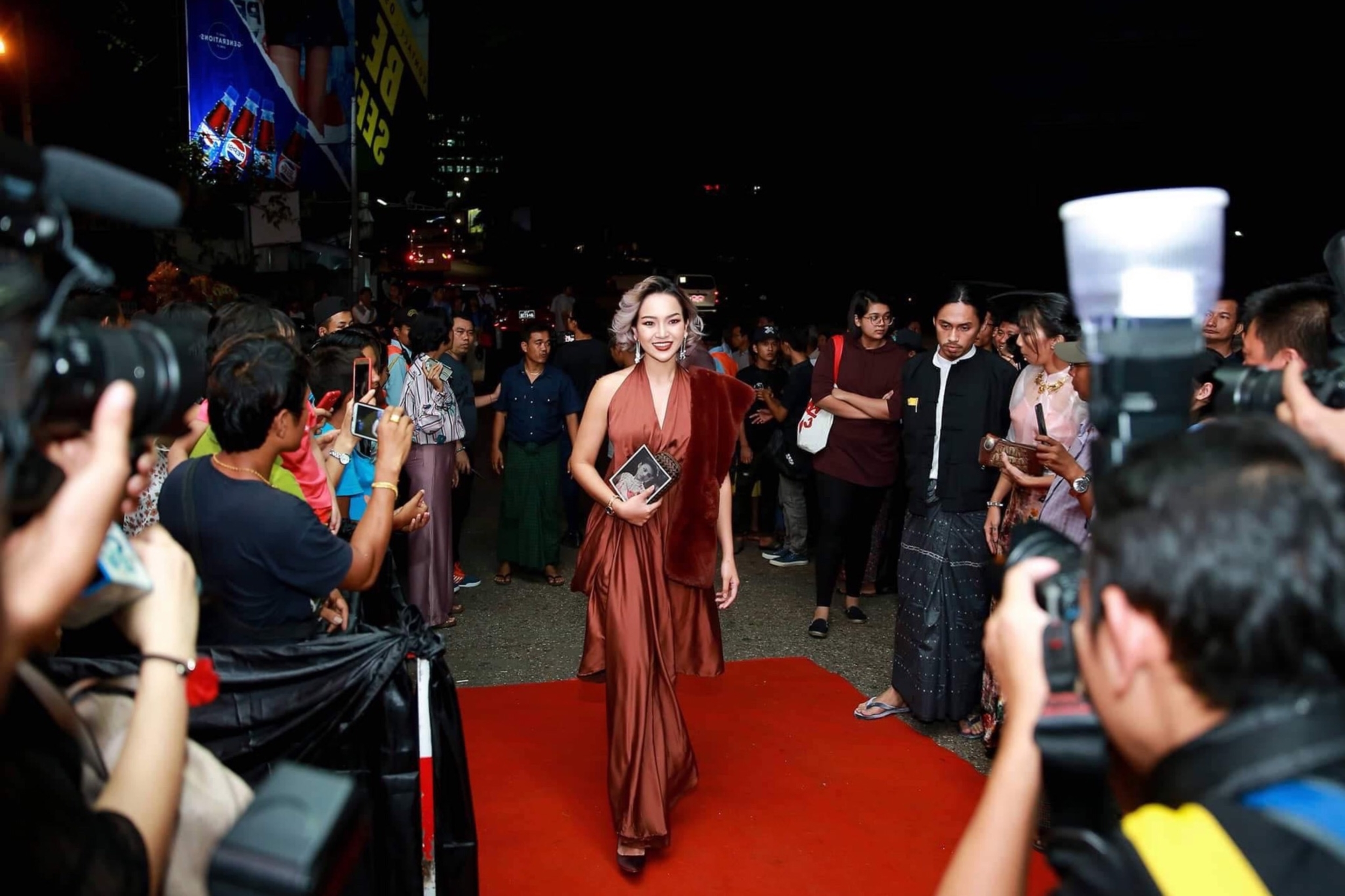 Nay Chi Oo attended the "Mi" movie press show